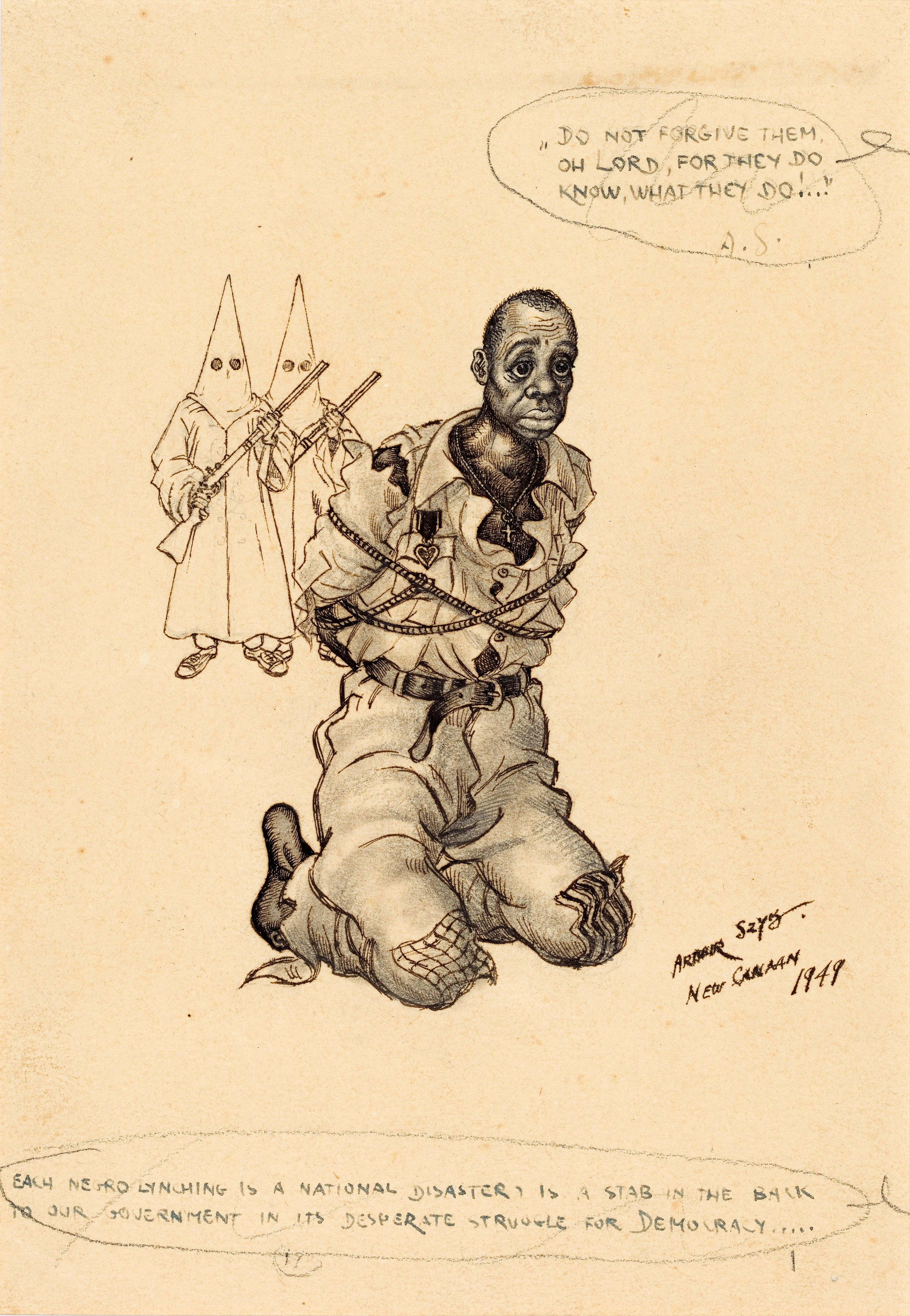 Arthur Szyk, 1949, Do Not Forgive Them, O Lord, For They Do Know What They Do.